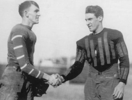 Vanderbilt captain Jess Neely shaking hands with Michigan captain Paul Goebel prior to the match between their teams in 1922. Goebel is on the left, Neely on the right. Neely's left arm was injured.